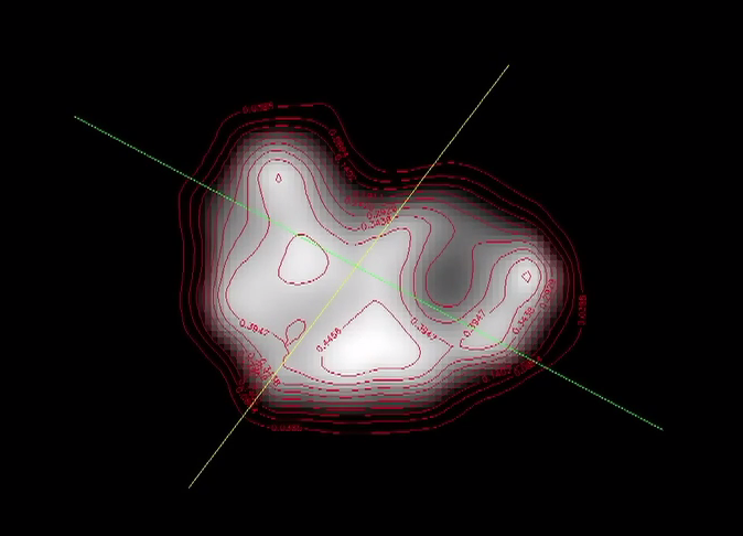 Picture of Hydra captured by New Horizons Spacecraft, released in 7-15-2015 press briefing. Red contour lines indicate brightness.